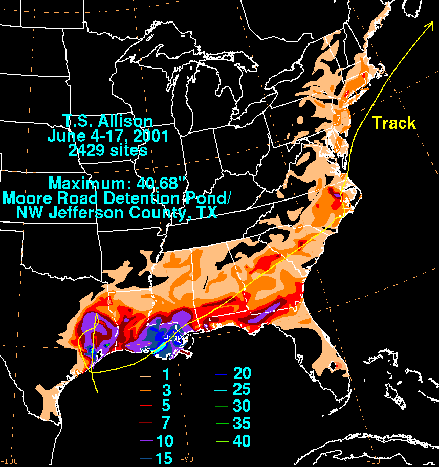 Rainfall produced by Tropical Storm Allison during June 2001.